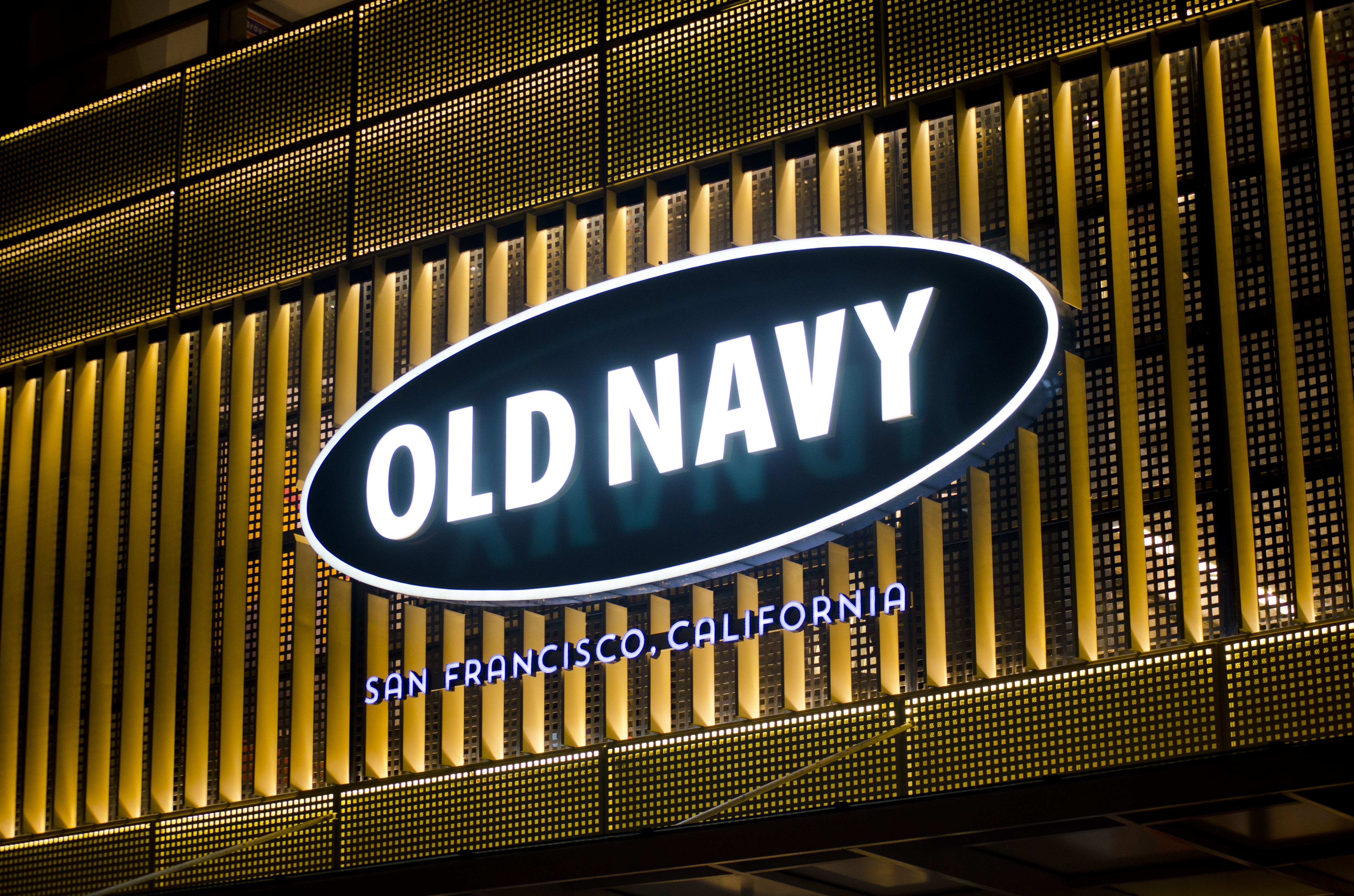 A shot of the Old Navy store logo in neon lights.